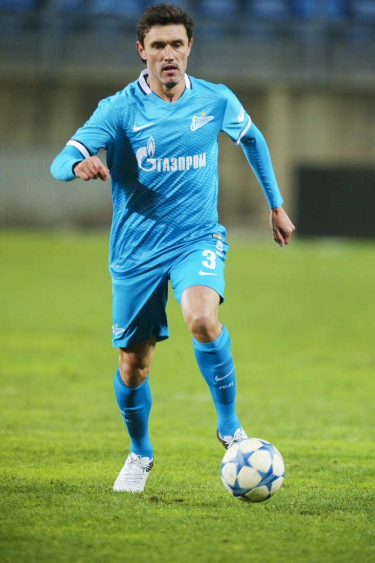 05.02.2016. Ïîðòóãàëèÿ, Àëãàðâè. Ìåæñåçîííûé òóðíèð «Atlantic Cup», ãðóïïà B, «Íîðð÷åïèíã» — «Çåíèò». Íà ñíèìêå â ñèíåé ôîðìå: Þðèé Æèðêîâ, çàùèòíèê ÔÊ «Çåíèò».